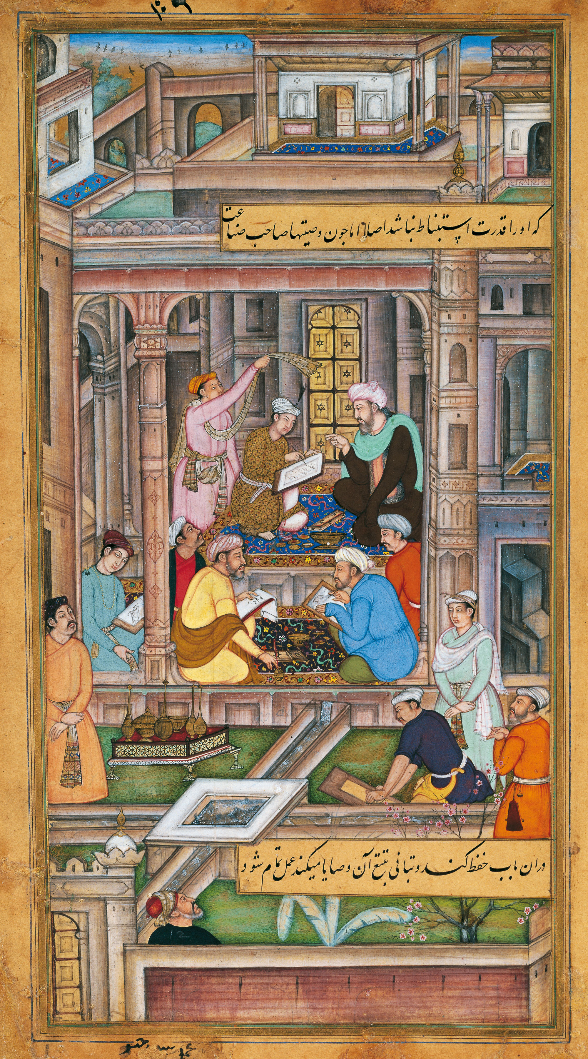 Artists and calligraphers at work. Mughal miniatures.